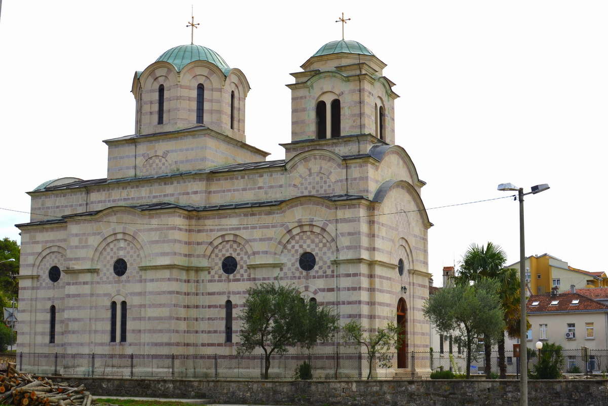 St Sava Church, Tivat